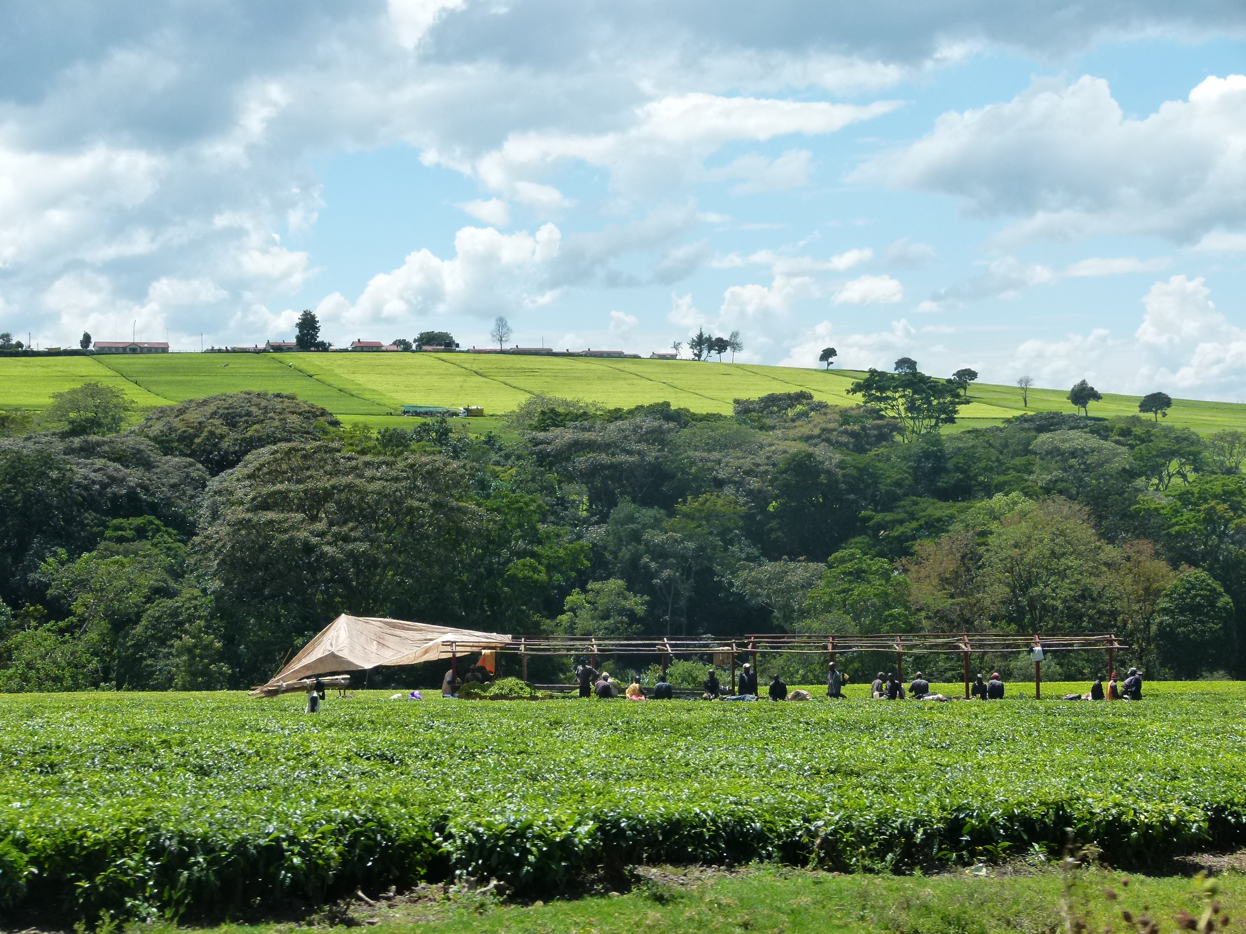 Kericho’s landscape and economy is dominated by tea farming and most of the large-scale tea plantations in the country are found in this county